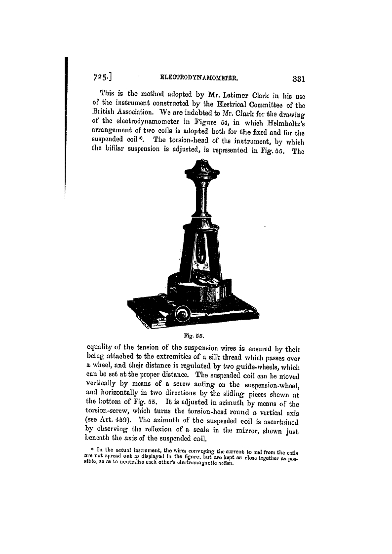 Maxwell, James Clerk: A Treatise on Electricity and Magnetism.